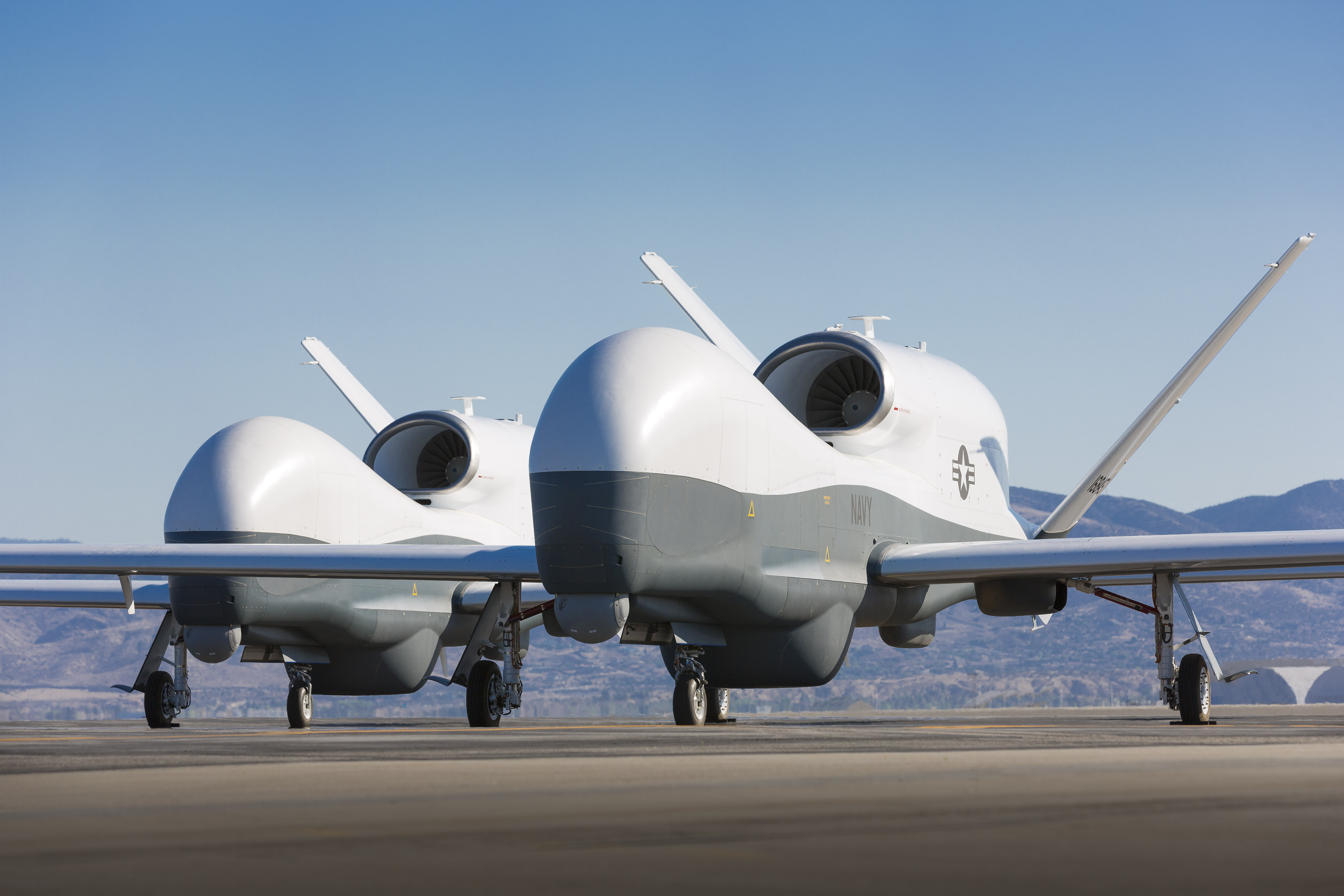 Two Northrop Grumman MQ-4C "Triton" unmanned aerial vehicles are seen on the tarmac at a Northrop Grumman test facility in Palmdale, Calif. Triton is undergoing flight testing as an unmanned maritime surveillance vehicle. (U.S. Navy photo courtesy of Northrop Grumman by Chad Slattery/Released) 130521-O-ZZ999-111